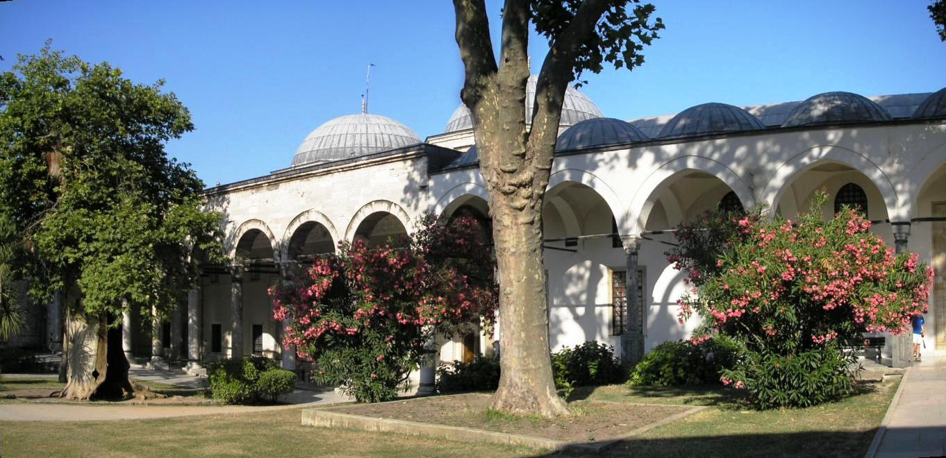 The Conqueror’s Pavilion, also called the Conqueror's Kiosk (Fatih Köşkü) and the arcade of the pavilion in front is one of the finest pavilions built under Sultan Mehmed the Conqueror and one of the oldest buildings inside the palace. It was built circa in 1460, when the palace was first constructed, and was also used to store works of art and treasure. Until today it houses the Imperial Treasury.